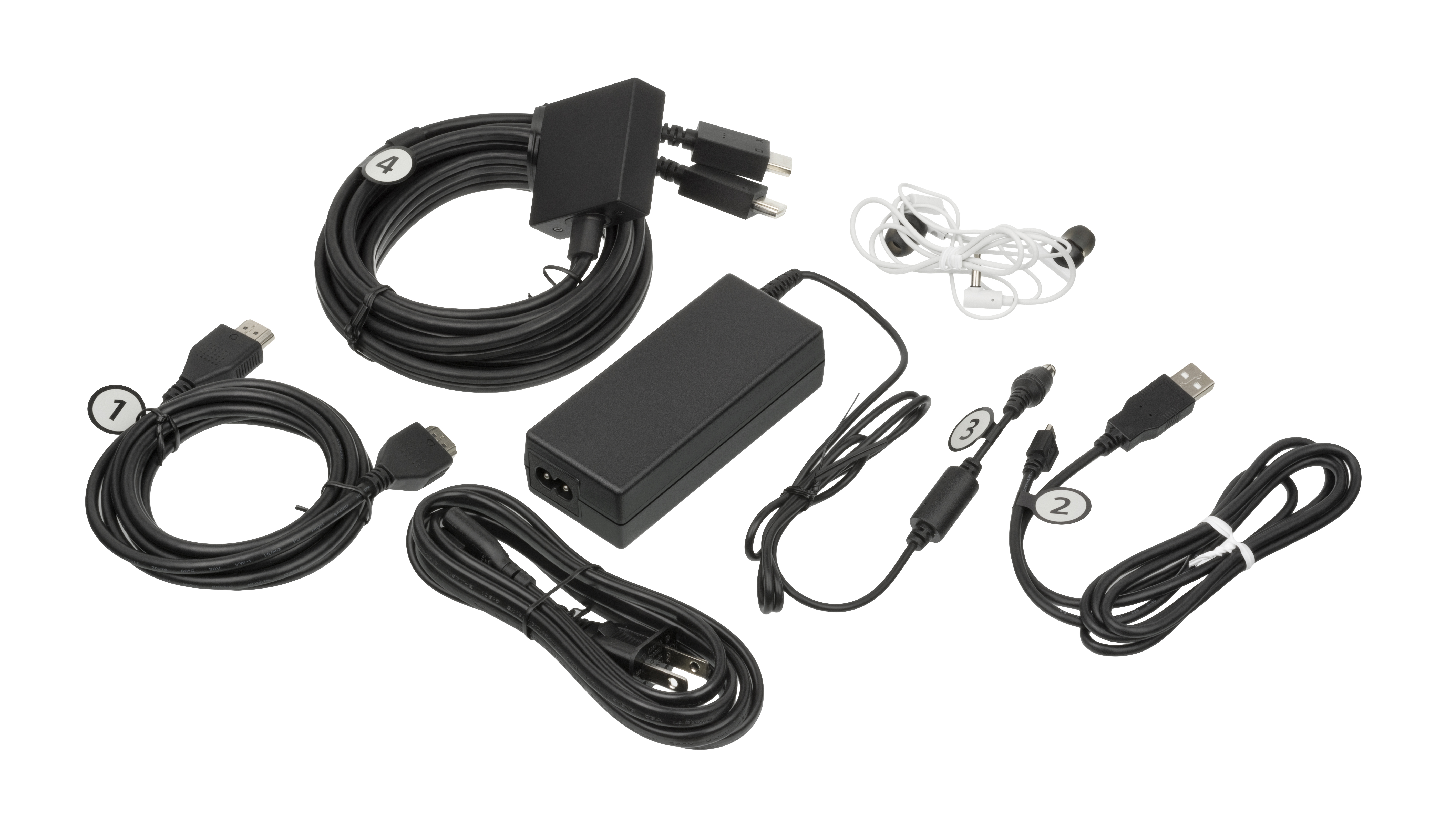 All of the cables required to hook up the PlayStation VR, an official virtual reality head-mounted display for the Sony PlayStation 4 video game console.